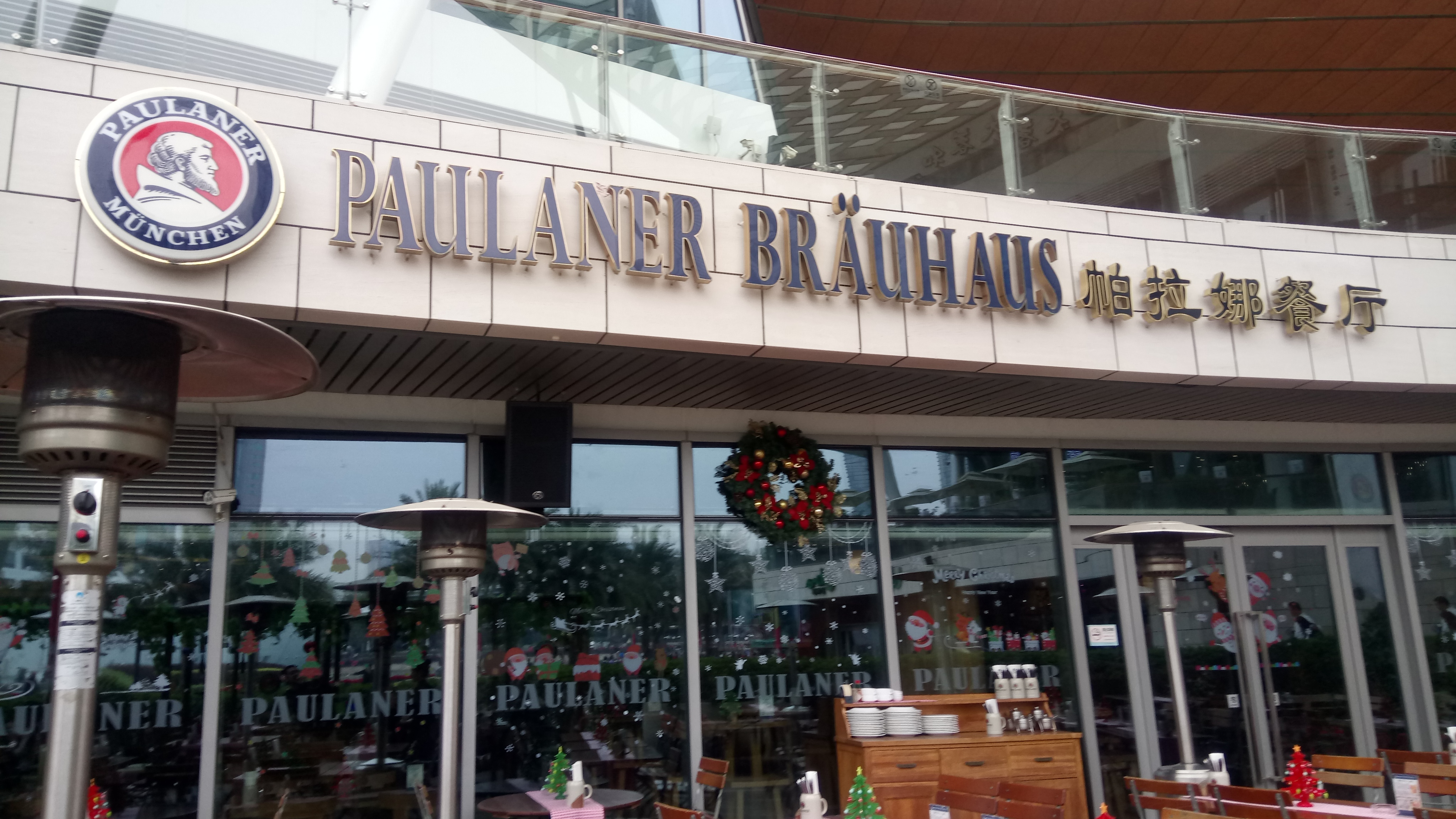 Paulaner Bräuhaus Shenzhen